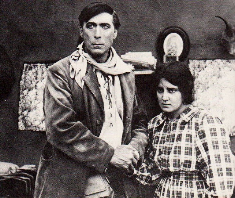 William S. Hart and Clara Williams in The Bargain (1914) - cropped screenshot